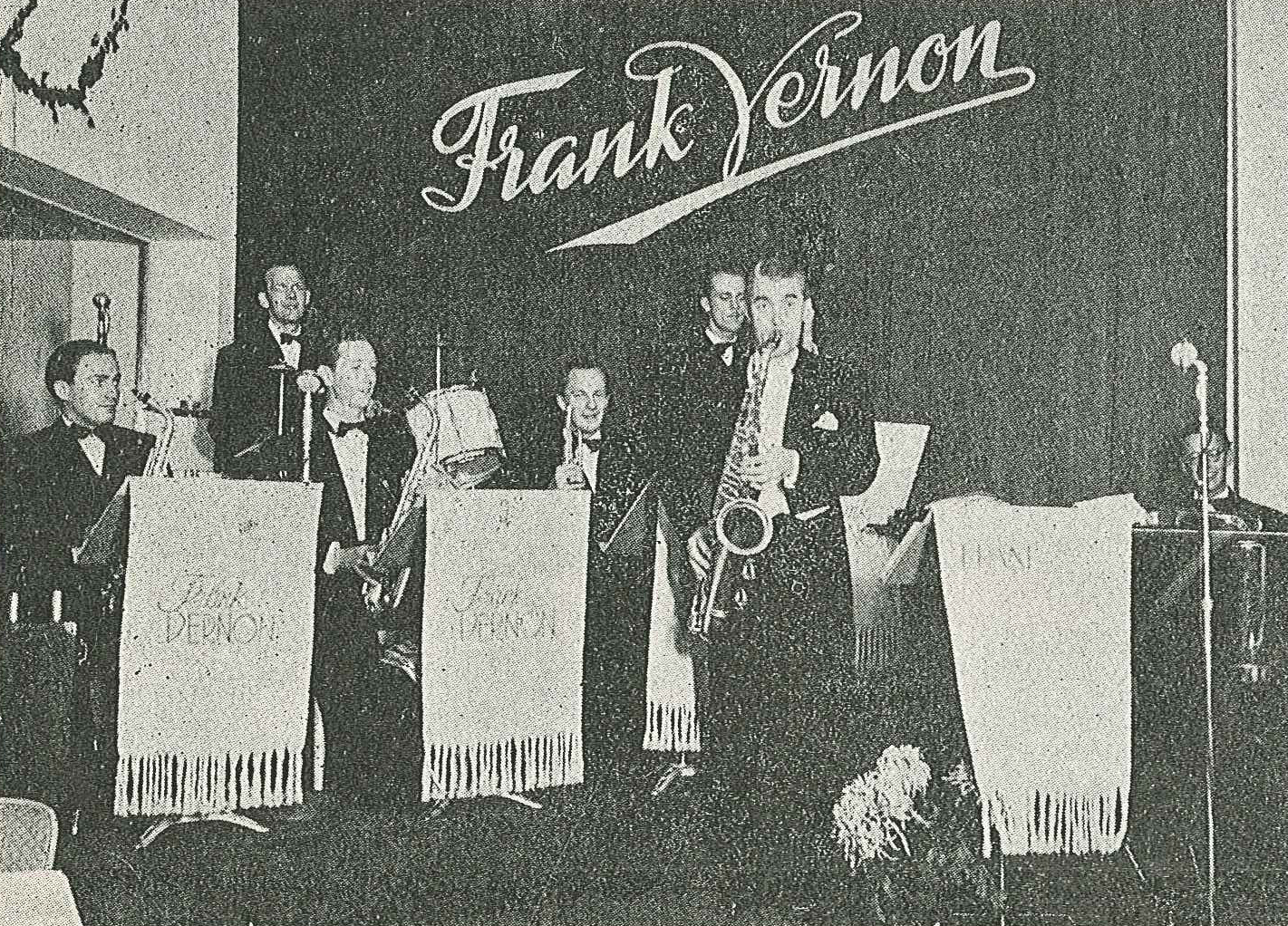 Swedish bandleader Frank Vernon and his orchestra at Restaurant Valand in Gothenburg.